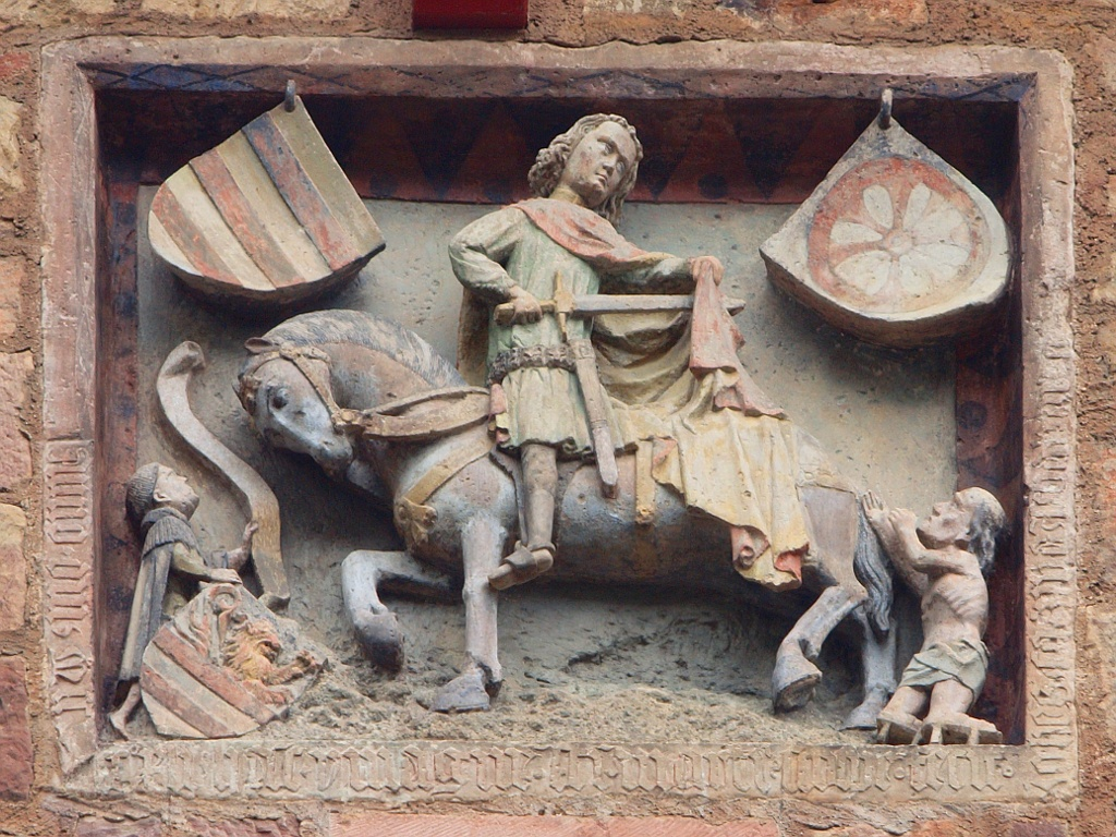 Saint Martin relief at town hall in Fritzlar.